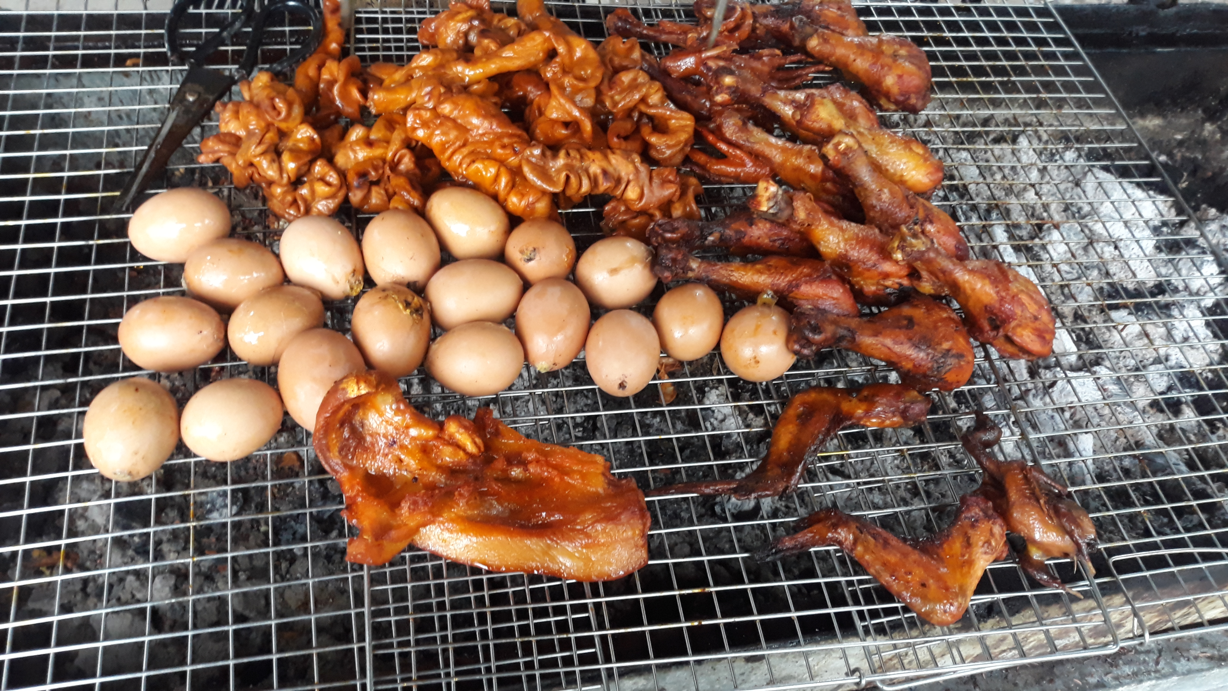 Roasted chickens in Vietnam